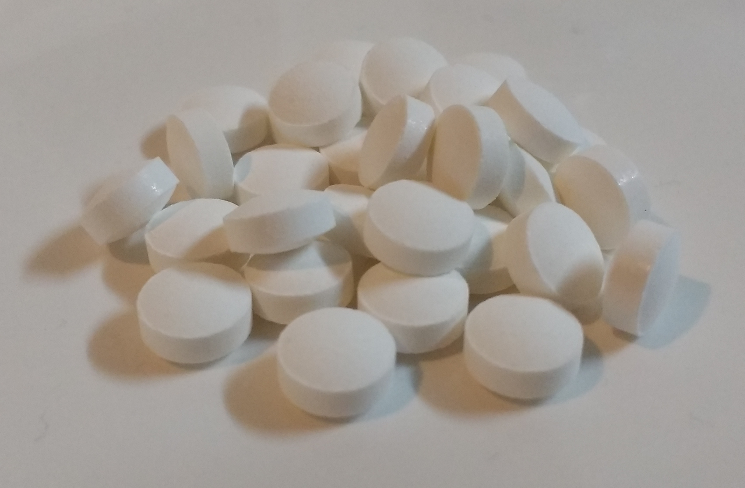 Zinc supplements (as zinc gluconate, 30 mg)